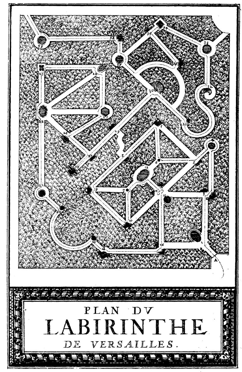 Plan from "Labyrinte de Versailles", printed at the Royal Press, Paris and illustrated by Sebastien le Clerc. The labyrinth had thirty-nine groups of hydraulic statuary representing the fables of Aesop. At the entrance to the labyrinth were placed symbolical statues of Aesop and Cupid, the latter holding in one hand a ball of thread. Each of the speaking characters represented in the fable groups emitted a jet of water, representing speech, and each group was accompanied by an engraved plate displaying verses by the poet de Benserade.